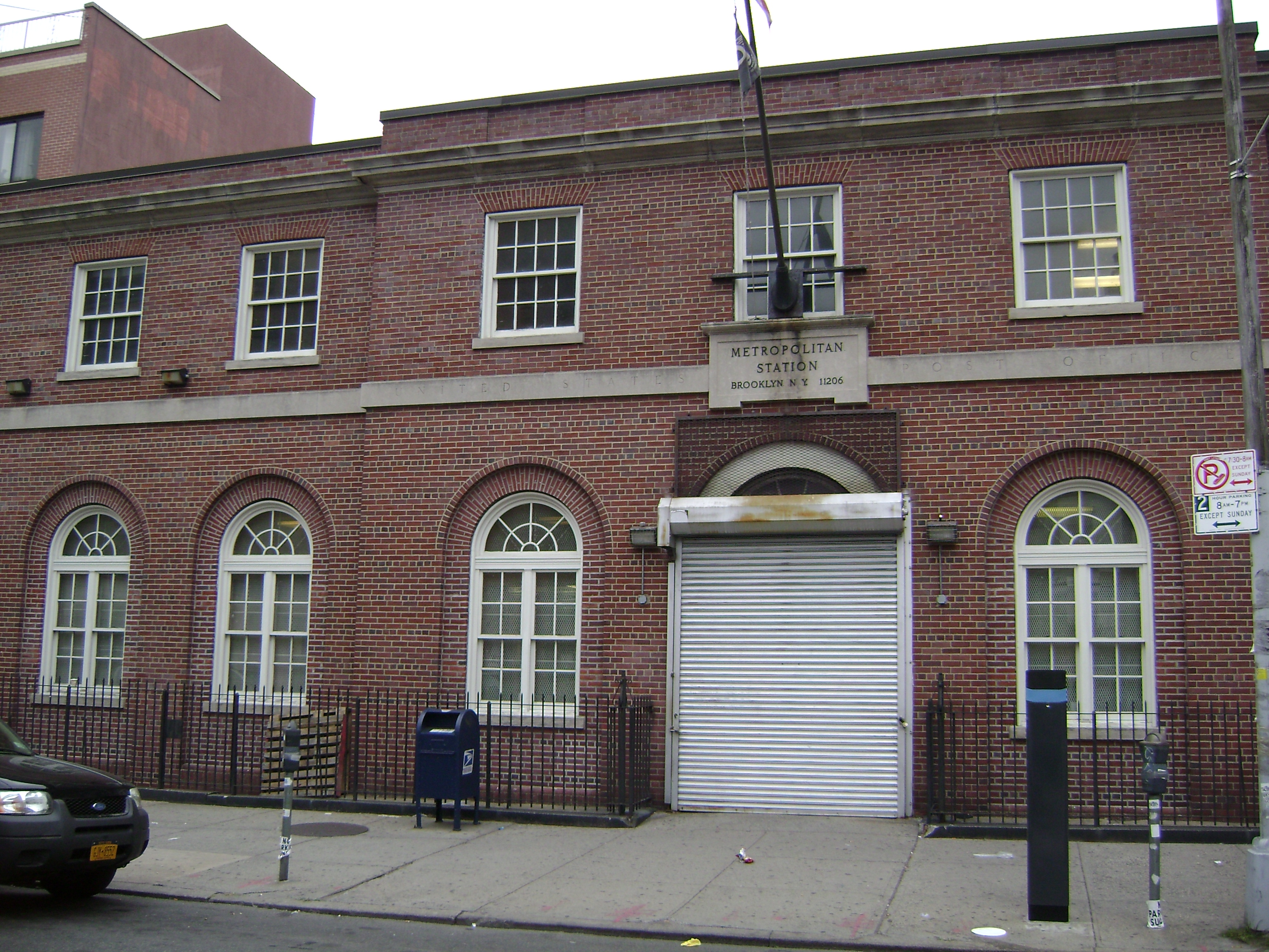 US Post Office-Metropolitan Station, 47 Debevoise St. Williamsburg